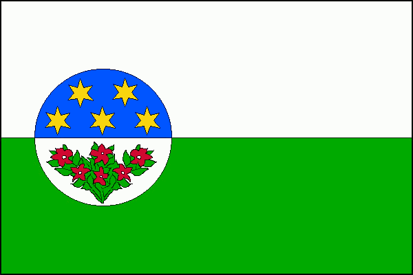 Municipal flag of Slatina village, Litoměřice District, Czech Republic.